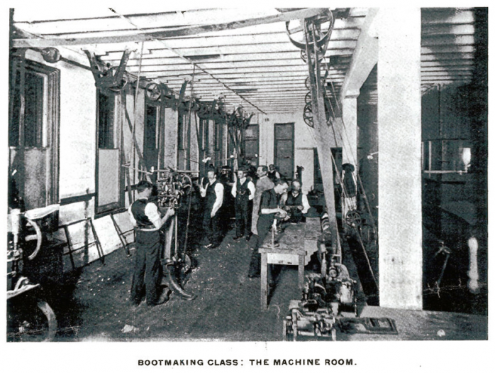 Bootmaking class in the machine room, Erskineville Bootmaking School 1909